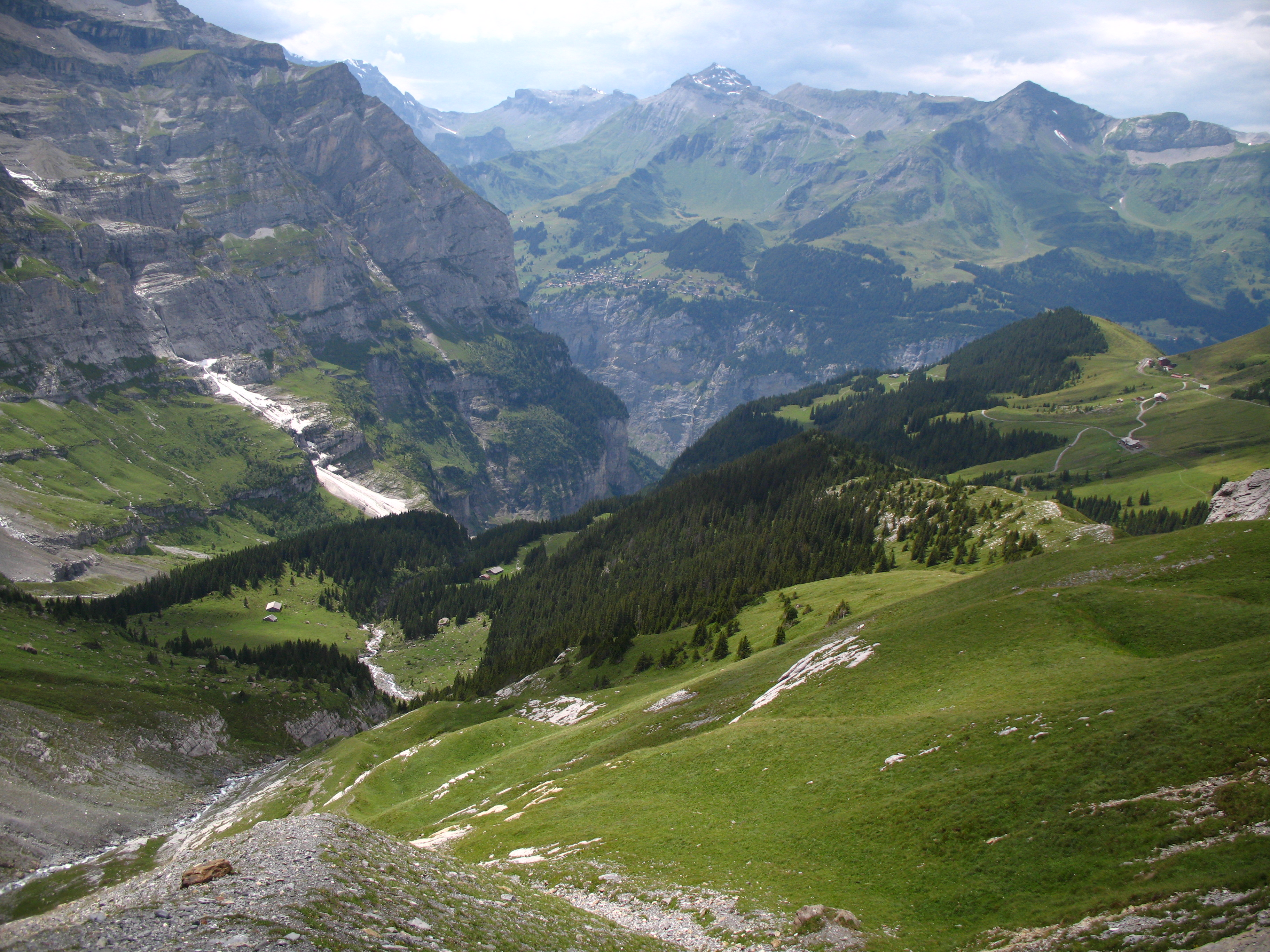 View from near the Eigergletscher Station, Switzerland